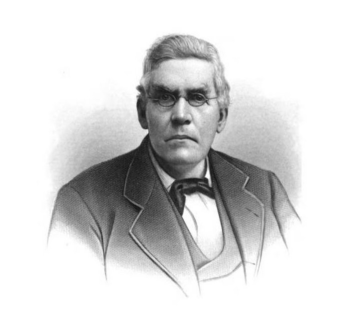 Historic glass manufacture and founder of Bryce Brothers